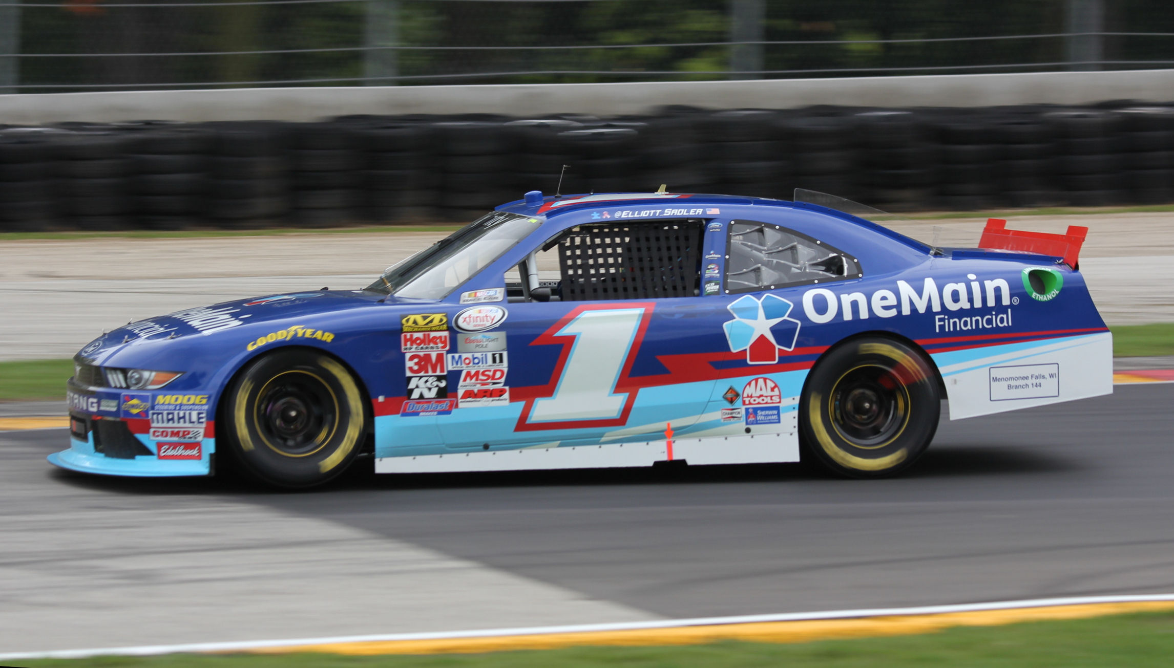 The NASCAR Xfinity Series car of Elliott Sadler turning left in Turn 6 at Road America.